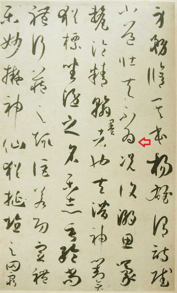 This is a calligraphic work by Sun Guoting of the Tang Dynasty. The red arrow represents a similarity to Japanese hiragana.